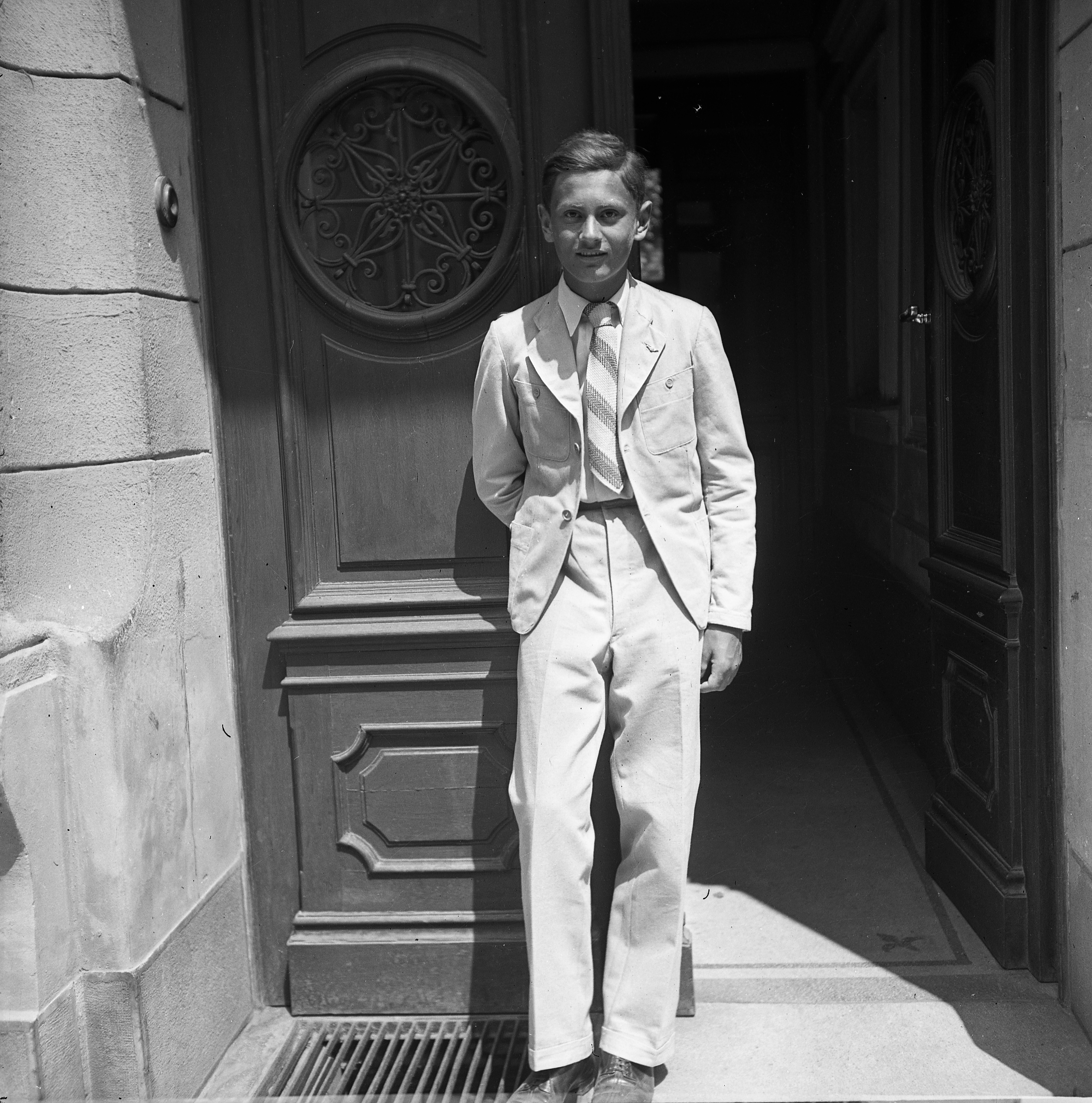 Árpád Göncz at the age of 15 in 1937 (Budapest, Hajnóczy [then Bors] Street 3.)